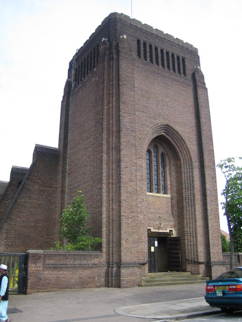 Luton: St Andrew's Church. The massive functional tower of this 1932-built church in Blenheim Crescent is typical of the work of its architect, Giles Gilbert Scott, who was known for his work on such iconic buildings as Battersea Power Station 84838 and Liverpool Cathedral 86731